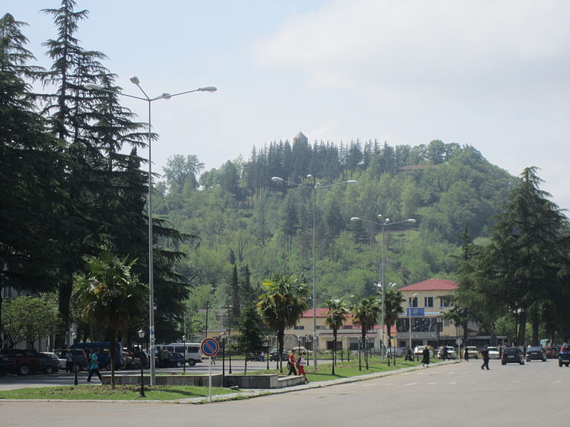 Martvili